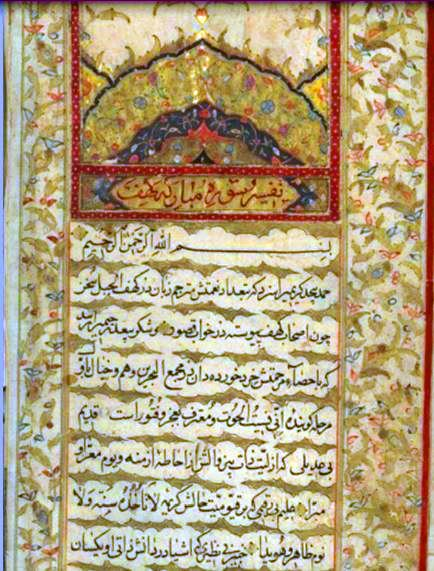 Tarjamat al-Sultani by Muhammad Reza ibn Muhammad Mehdi ibn Muhammad Baqir al-Sabzevari known as Agha Muhammad al-Sultani commissioned by Soltan Hosein Safavi in 1703 (1115 A.H.) Central Library of Astan Quds Razavi , Registered Number: 1461